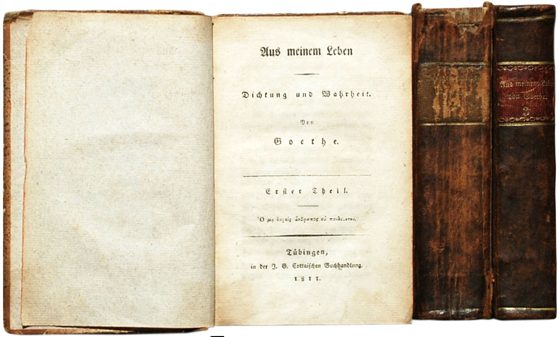 first prints (Hagen 363 D 1. / 2. / 3.)